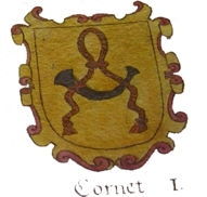 Escudo Cornet